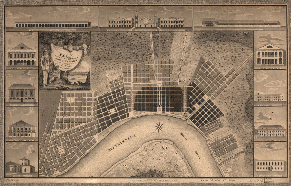 Plan of the city and suburbs of New Orleans : from an actual survey made in 1815